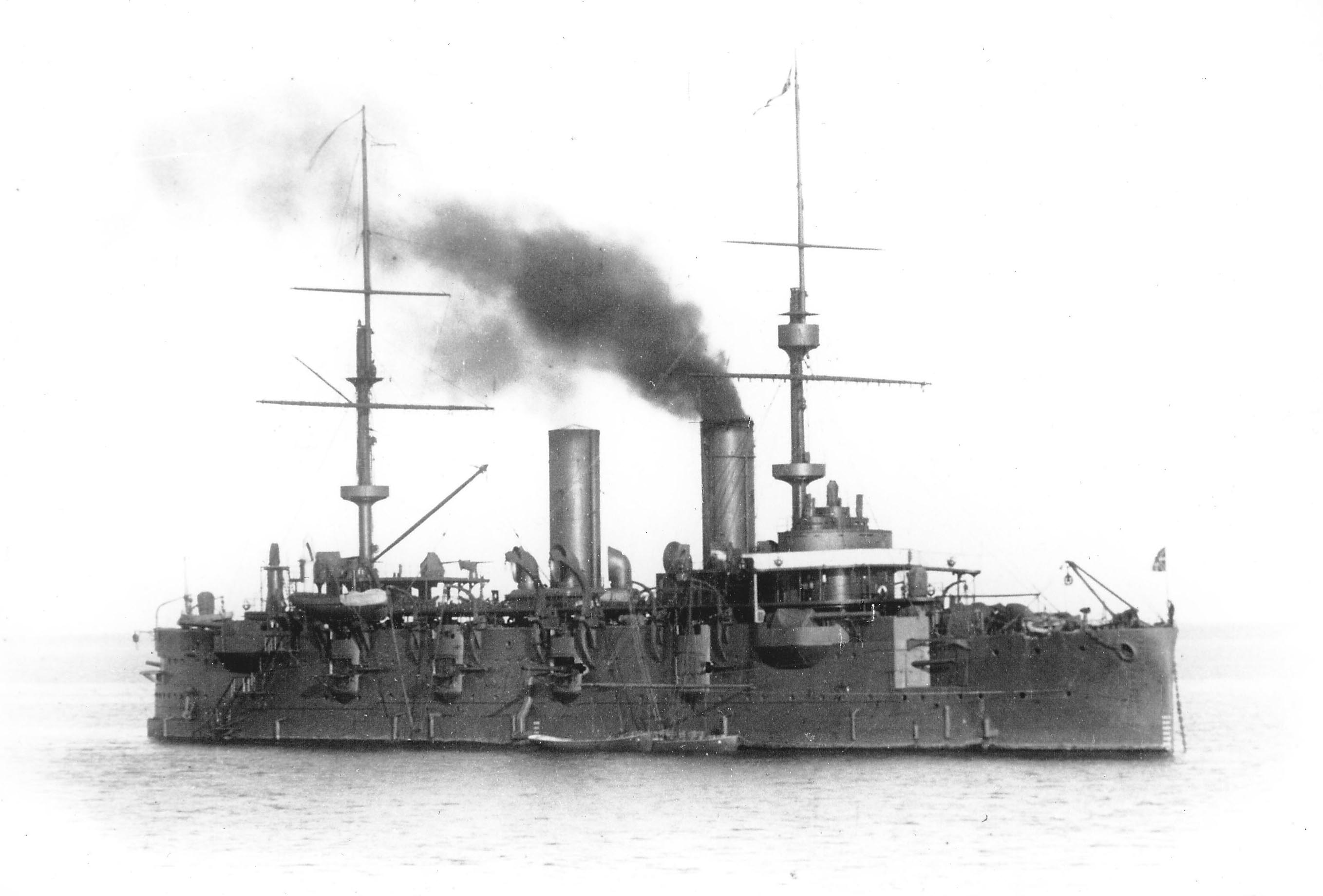 Imperial Russian gun-training ship Petr Velikiy.